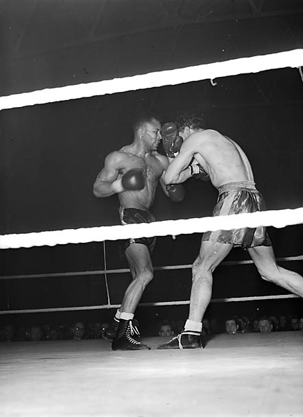 Teitl Cymraeg/Welsh title: Paffio : Dennis Powell v Mel Brown (UDA) Ffotograffydd/Photographer: Geoff Charles (1909-2002) Nodyn/Note: Images of the boxing match between Dennis Powell of Four Crosses, and Mel Brown of the USA, at the Embassy Rink, Sparkbrook, Birmingham. Dennis Powell was forced to retire with a cut eye in the seventh round Dyddiad/Date: May 10, 1950 Cyfrwng/Medium: Negydd ffilm / Film negative Cyfeiriad/Reference: (gch00524) Rhif cofnod / Record no.: 3367360 Rhagor o wybodaeth am gasgliad Geoff Charles yn Llyfrgell Genedlaethol Cymru More information about the Geoff Charles Collection at the National Library of Wales